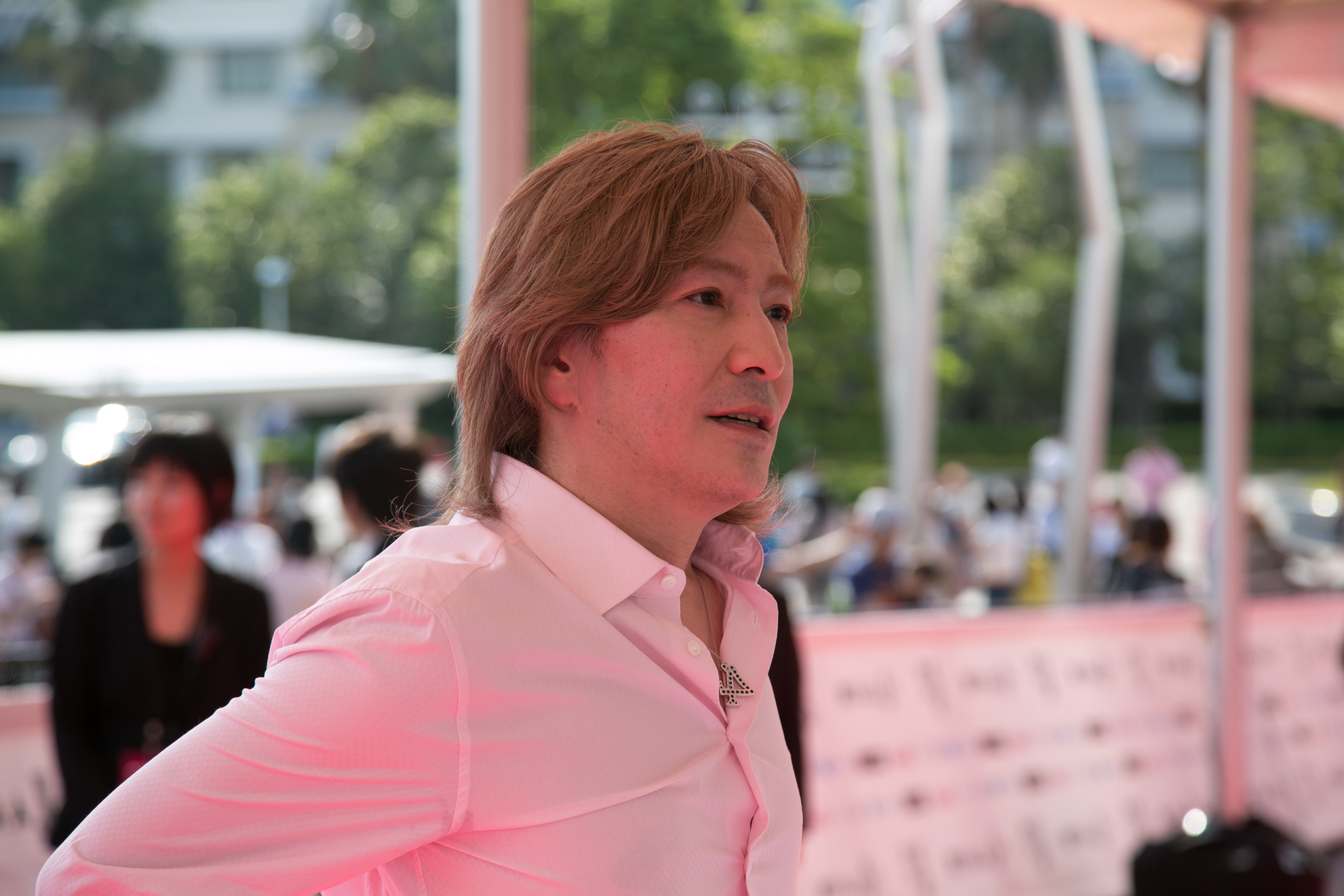 Tetsuya Komuro at the 2014 MTV VMAJ in Japan.